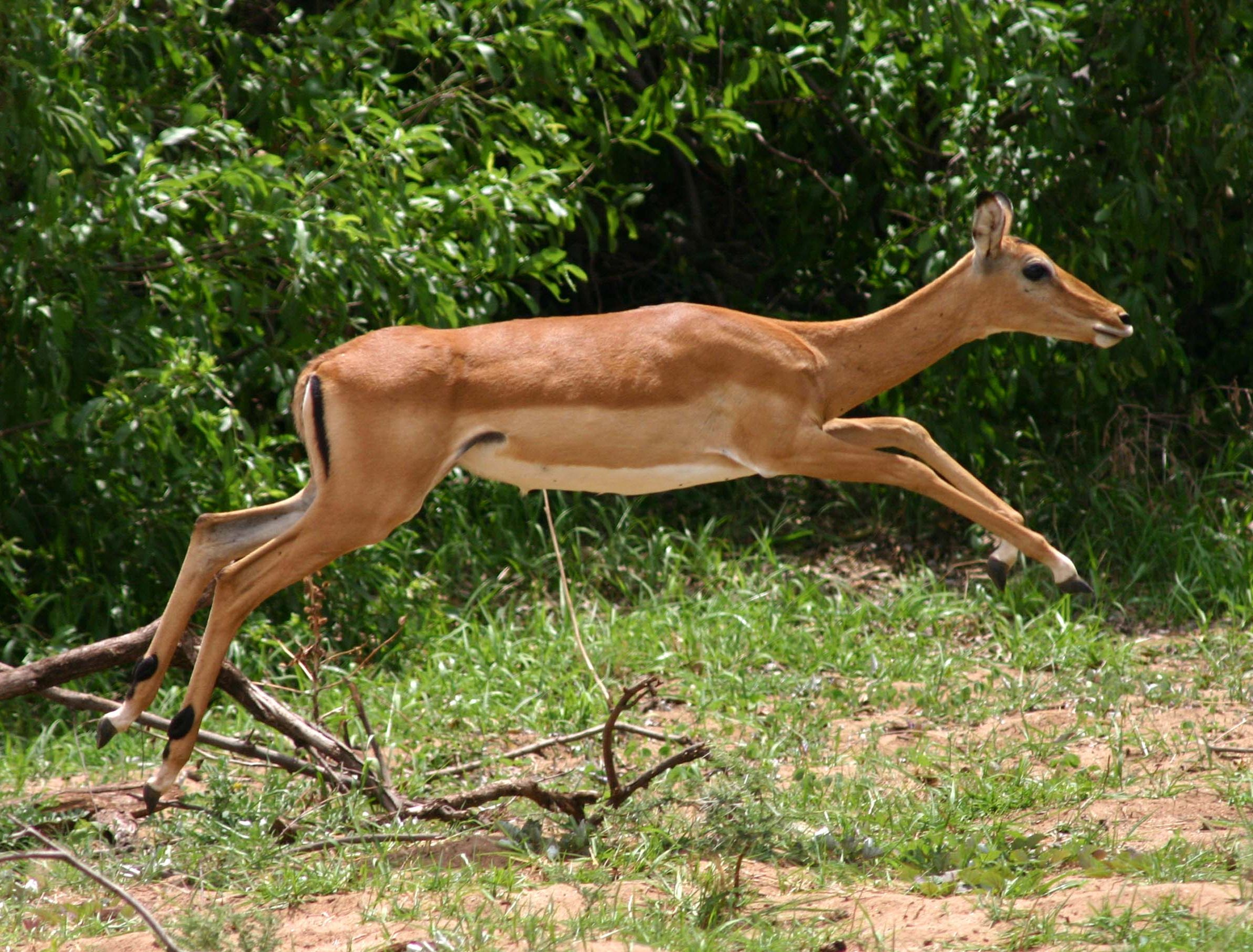 Impala. Photograph taken in Tnazania using a Canon EOS300D and Canon 300mm Image Stabilizer EF lens with Skylight 1A filter.